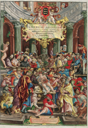 Coloured Paper of Fabrica